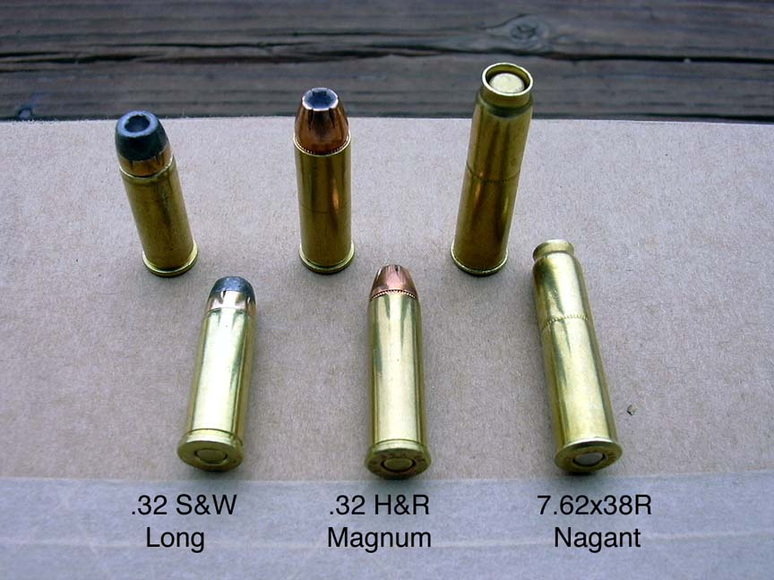 Comparison of .32 Smith & Wesson Long, .32 H&R Magnum and 7.62x38R Nagant